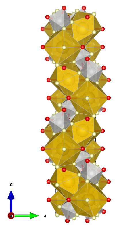 Crystal structure of Acuminite (SrAlF4(OH)·H2O) as "polyhedron model" with view parallel to the a-axis.